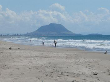 Papamoa Beach, New Zealand, by Stephen Morris